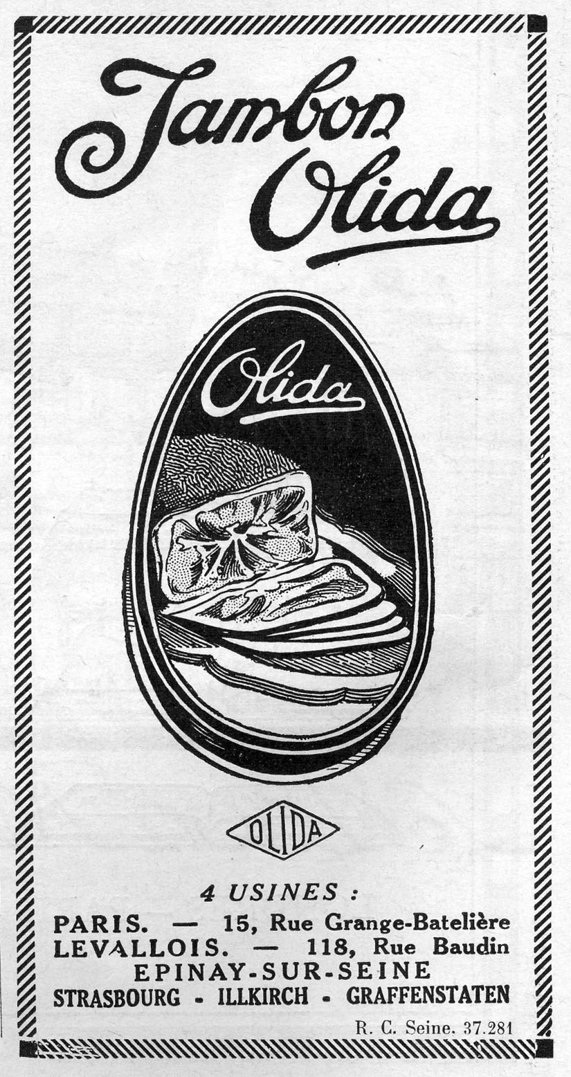 Olida : advertisement of 1924